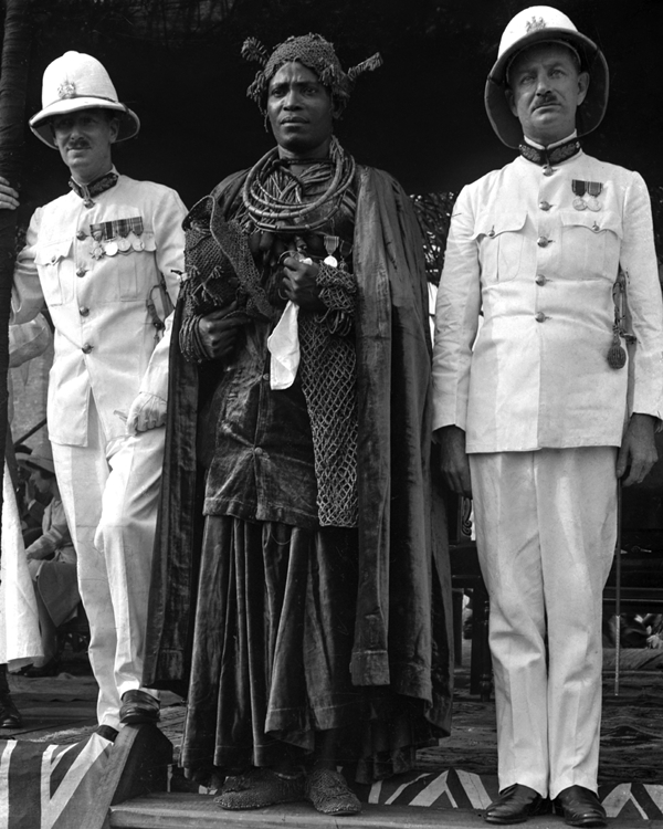 Visit of the Earl of Plymouth (right) to the Oba of Benin, Oba Akenzua II, Benin City, Nigeria. Oba Akenzua II holds the coral regalia of Oba Ovonramwen, Oba Ovonramwen, which the British took in the Benin Punative Raid 1897 and returned in the late 1930s. Sir John Macpherson, Governor-General of Nigeria, stands on the left, (1935). Glass plate (Chief S. O. Alonge Collection, Eliot Elisofon Photographic Archives)